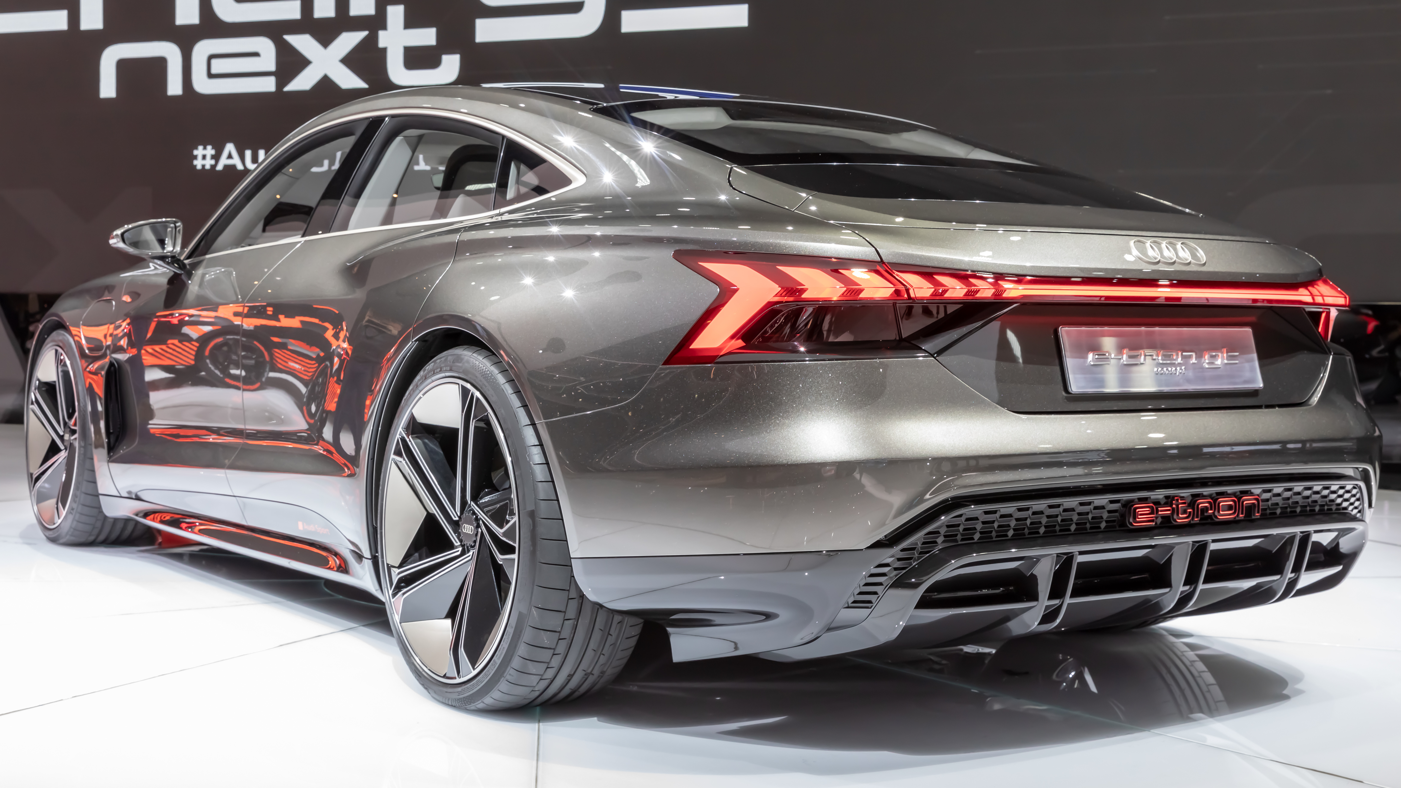 Audi e-tron GT concept at Geneva International Motor Show 2019, Le Grand-Saconnex